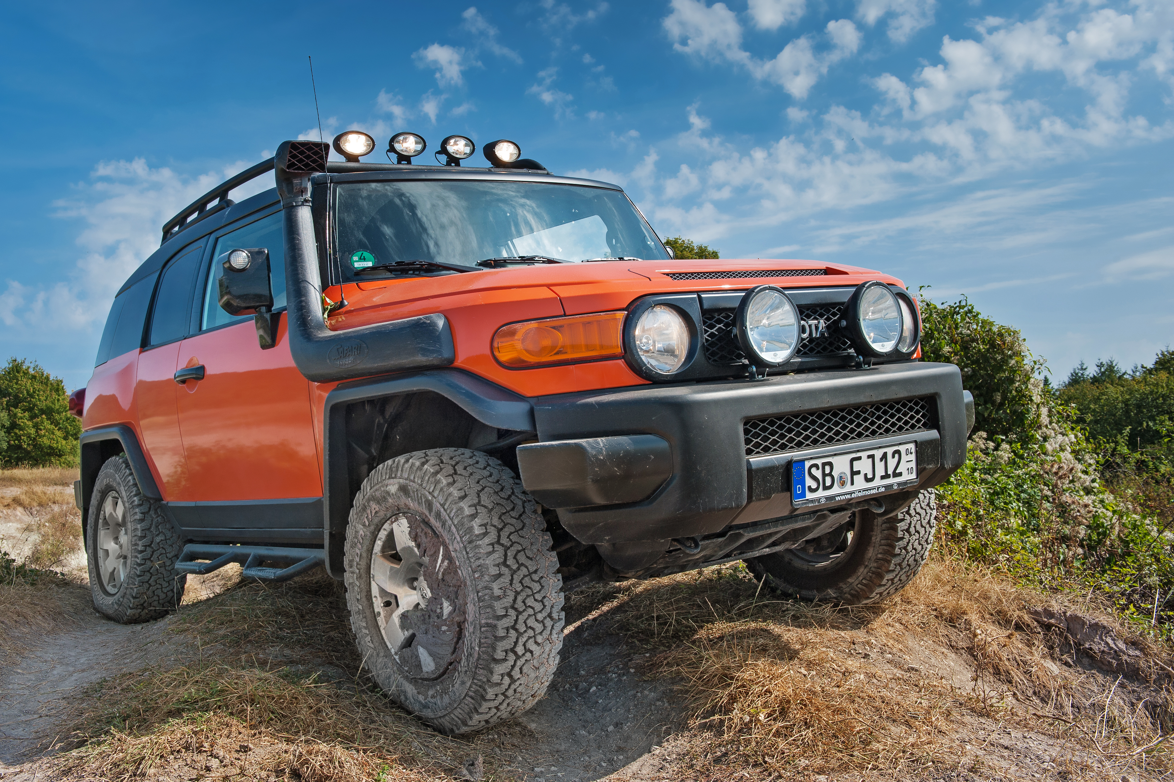 Toyota FJ Cruiser